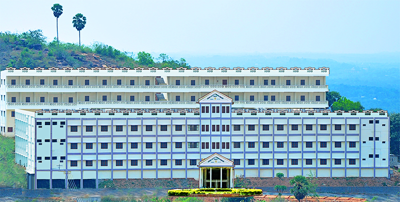 LMCE College Building